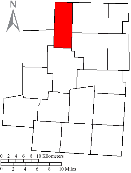 Originally created by the US Census. Modified by myself to highlight the township.